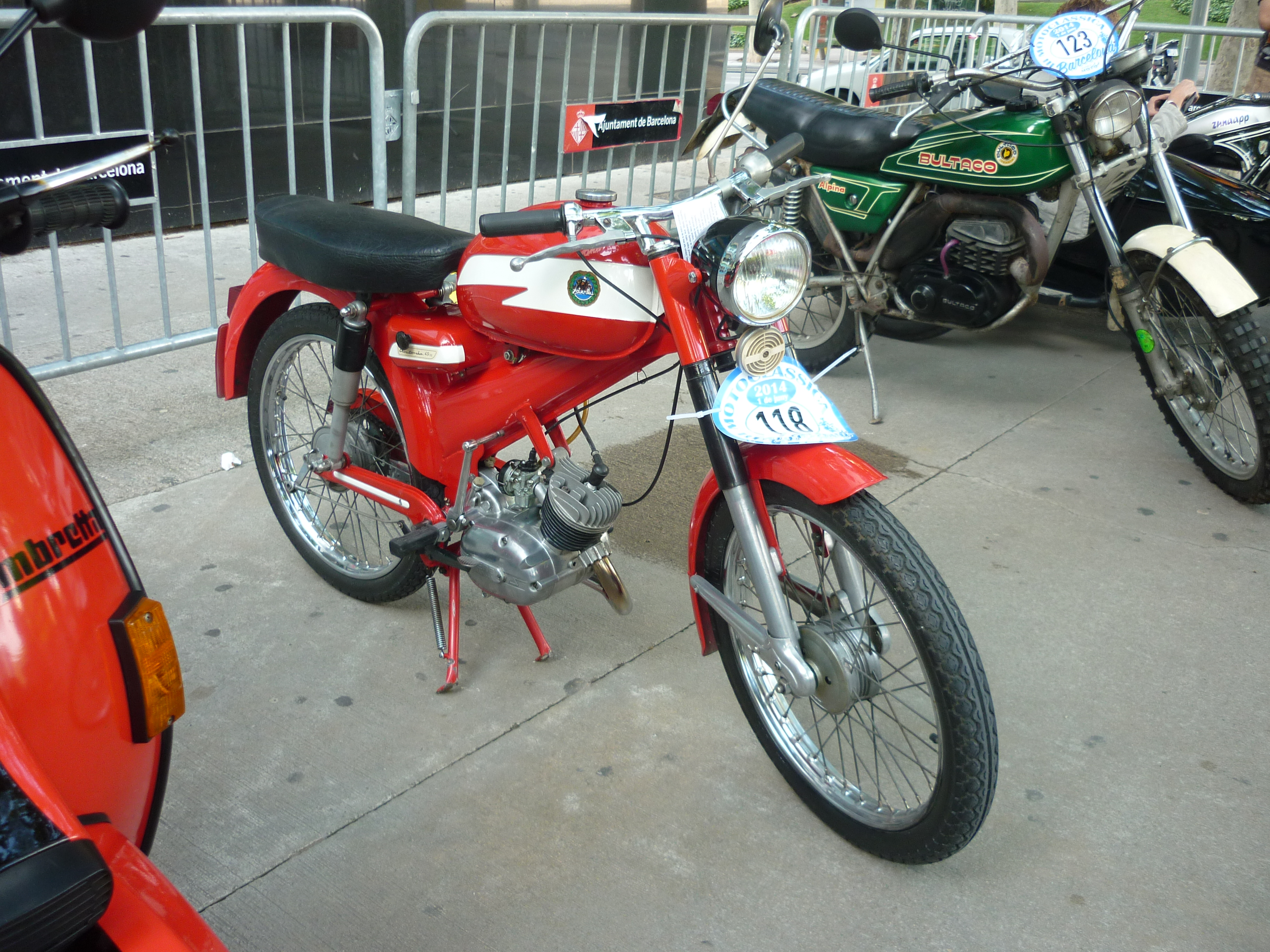 Derbi Antorcha (aka Derbi Paleta -"mason"-) 49cc by 1965